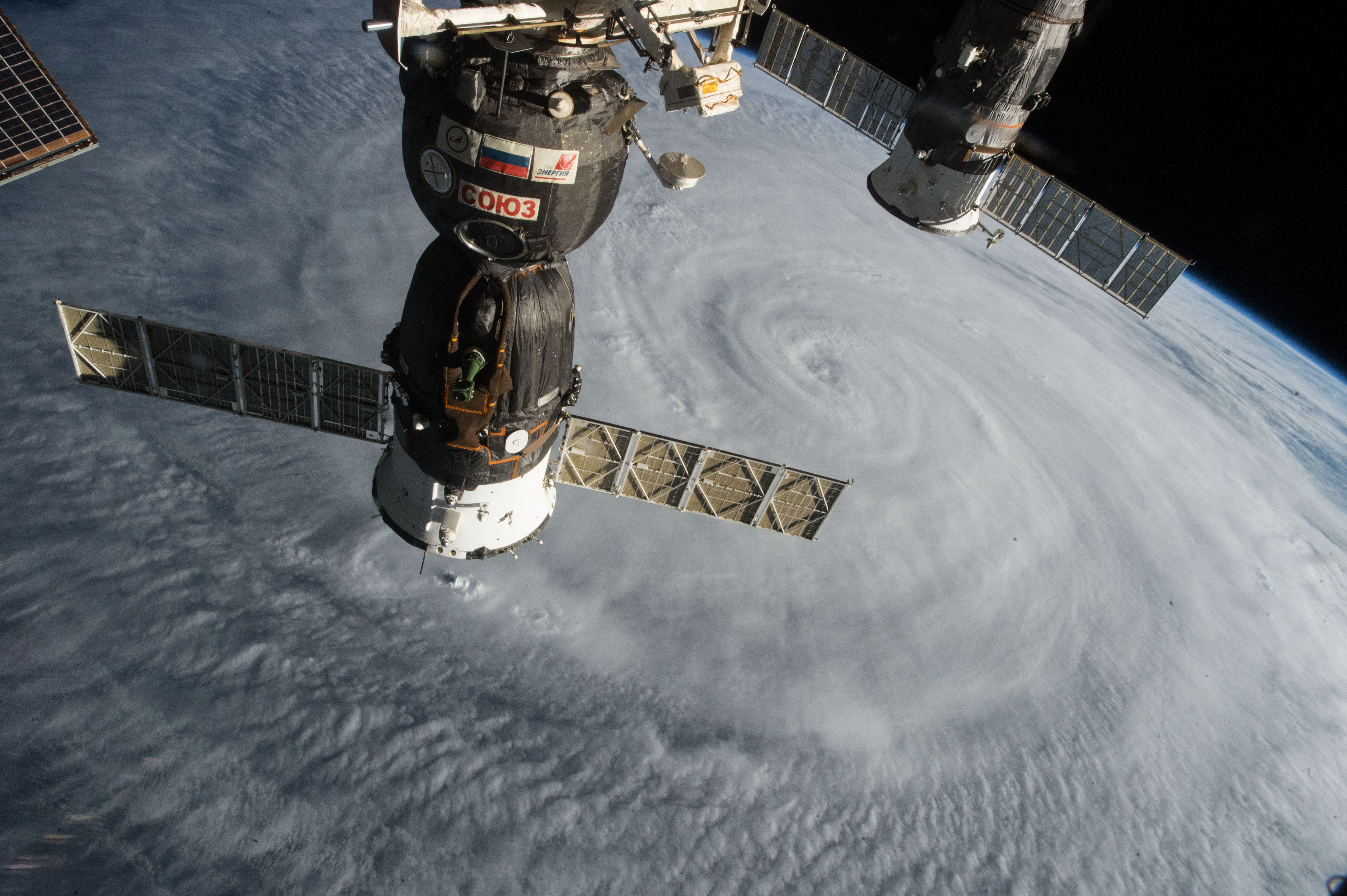 Typhoon Soudelor photographed from the International Space Station on Aug. 5, 2015 while the storm was traveling in the western Pacific. The Soyuz TMA-17M (left) and the Progress 60 (right) cargo craft are visible.